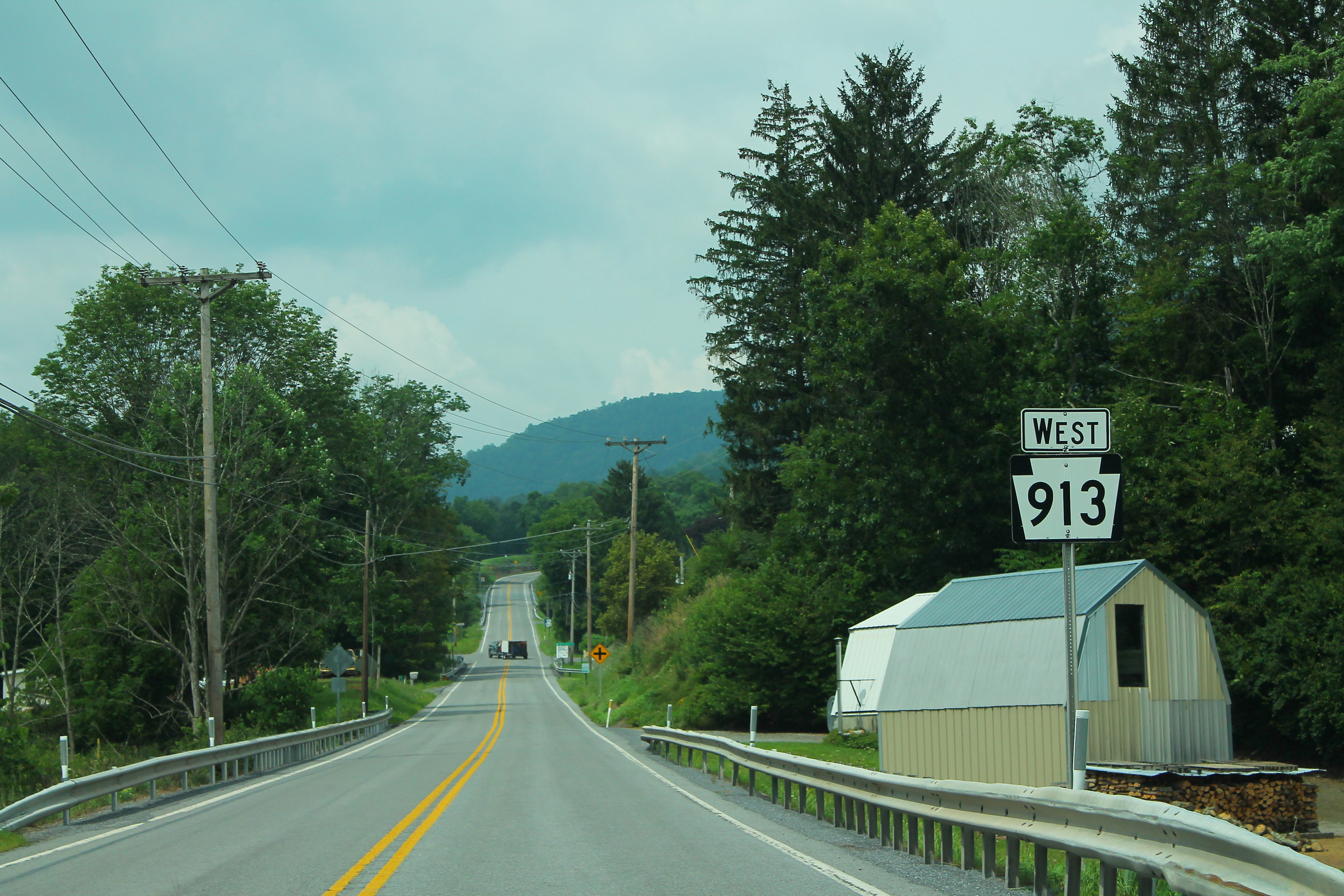 PA913wRoadSign